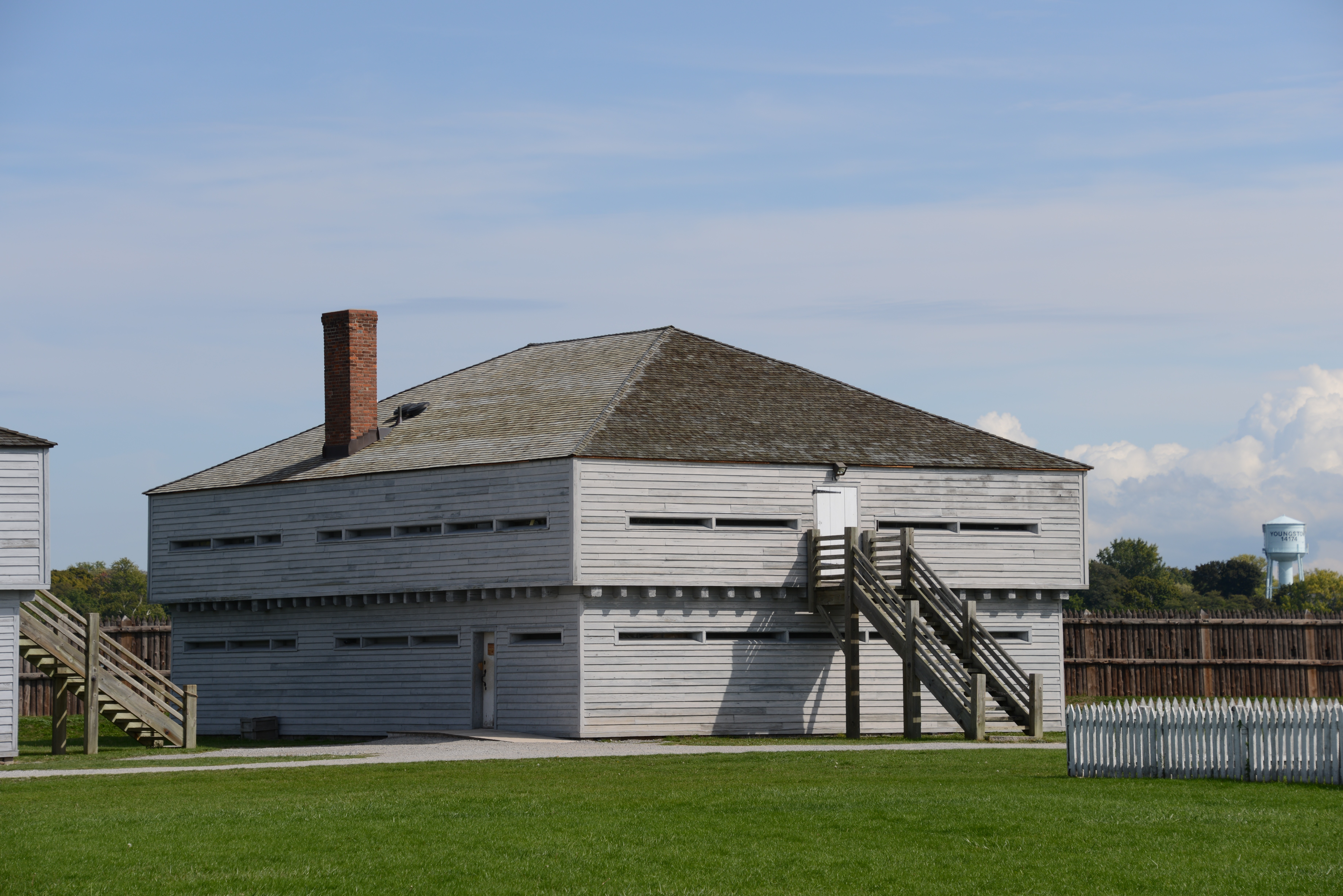 Blockhouse 3, Fort George, Niagara-On-The-Lake